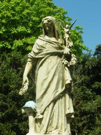 The work “La France victorieuse” being part of the monument aux morts at Chaulnes in the Somme.